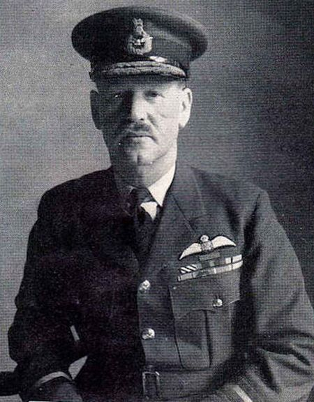 Photographic portrait of Air Commodore Richard Jordan taken in 1949 on appointment as Commandant Royal Observer Corps. The photograph is low resolution and used here for illustration of the encyclopedic article on Air Commodore Jordan.